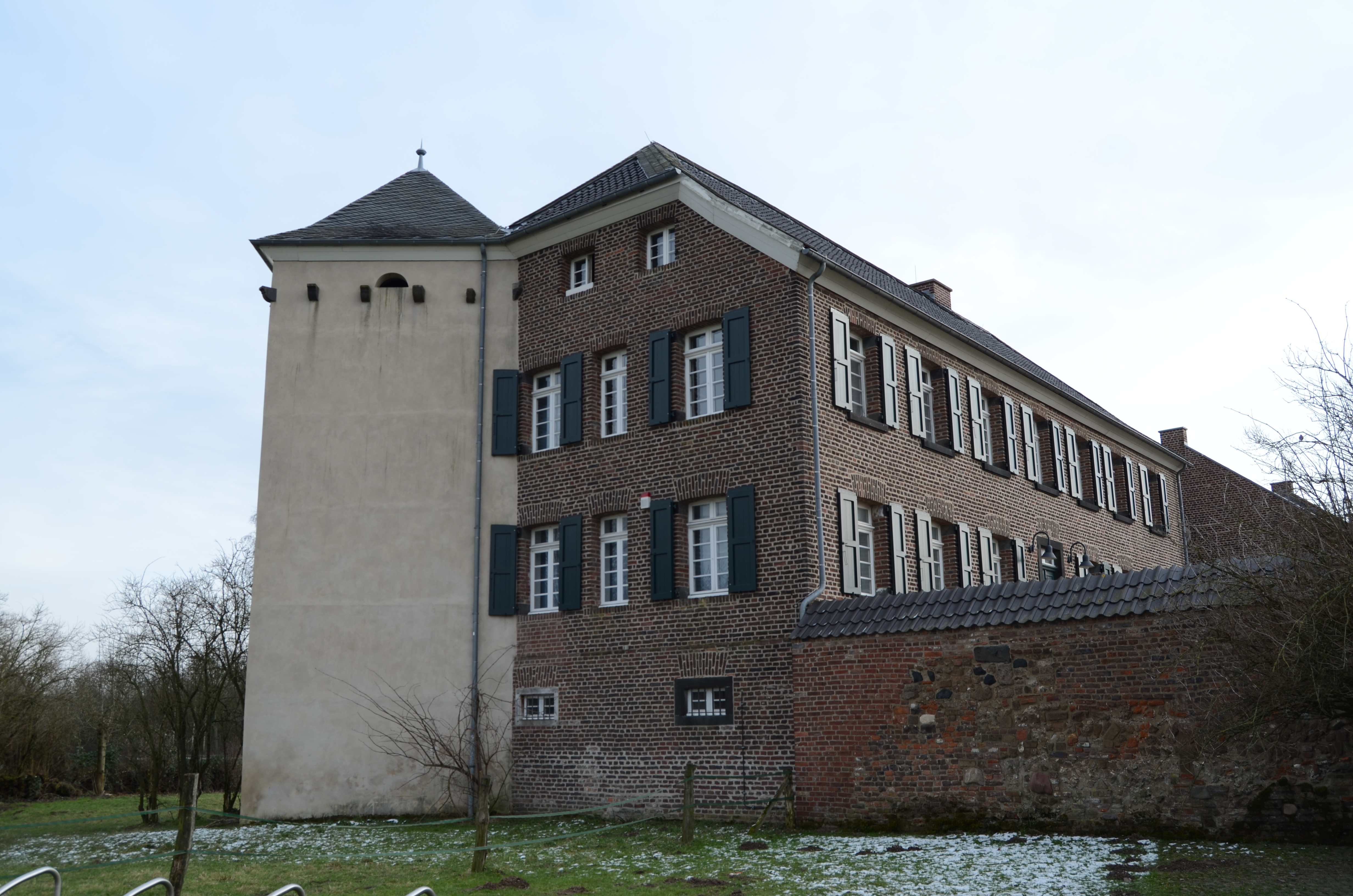 Monheim am Rhein (North Rhine-Westphalia, Germany) – district Baumberg – medieval fiefdom Haus Bürgel This image shows a heritage building in Germany, located in the North Rhine-Westphalian city Monheim am Rhein. This photograph was taken with a Nikon D7000